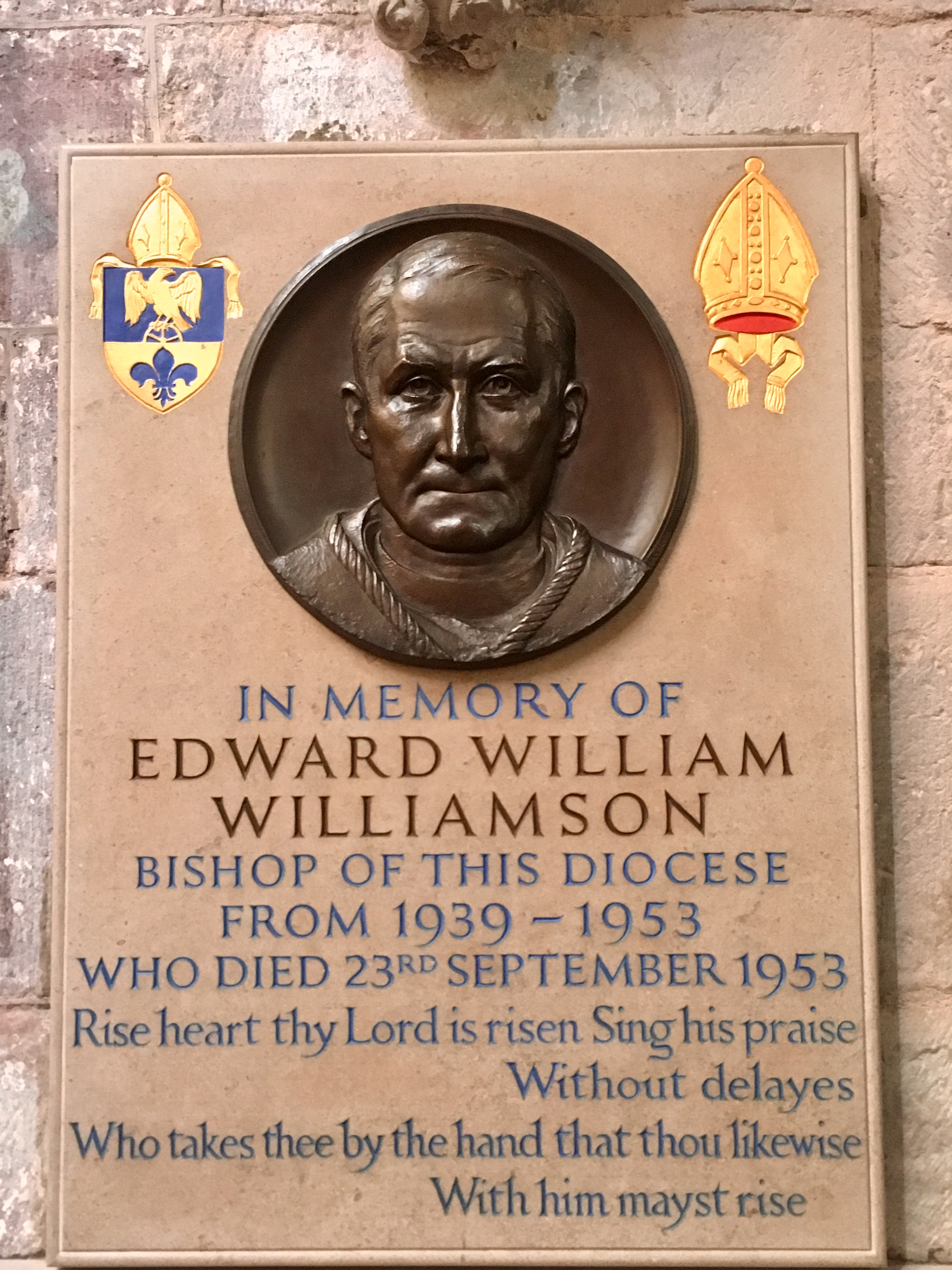 Brecon Cathedral Wikidata has entry Q2469048 with data related to this item.